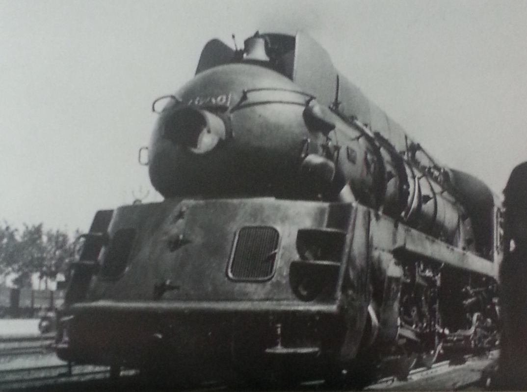 Locomotive Pashiha-6 of the South Manchuria Railway